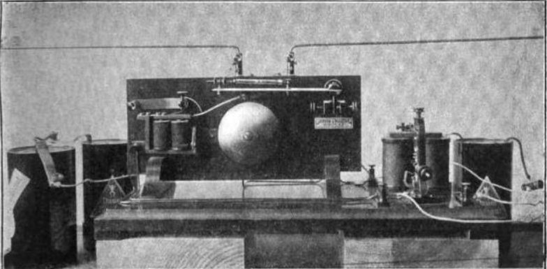 One of the first radio receivers, built by Russian physicist Alexander Popov as a lightning detector in 1894. It is not clear from the source whether this is the original or a recreation. It uses a coherer (top), a glass tube containing metal filings between two electrodes, invented by Edouard Branley in 1890. Radio waves are received by the wire dipole antenna (top) and applied to the coherer electrodes. The radio waves cause the metal powder to stick together (cohere) and decrease the resistance between the coherer electrodes, turning on a DC circuit to ring a bell. Popov improved the coherer by adding a relay, and a mechanical vibrator (electric bell, center) which disturbed the filings, resetting the coherer to its receptive state after each signal had been received. On 25 April 1895 Popov demonstrated the receiver to a meeting of the Russian Physico-Chemical Society at Petersburg University. In Russia Popov is regarded as the inventor of radio, and 25 April is celebrated as Radio Day..